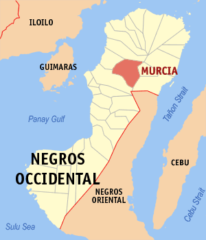 Map of Negros Occidental showing the location of Murcia